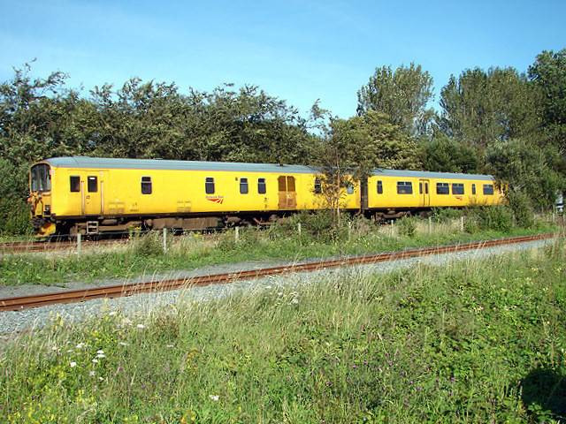 A Network Rail engineers train waits for the road at Aberystwyth. In the foreground is the narrow gauge track of the Vale of Rheidol Railway.